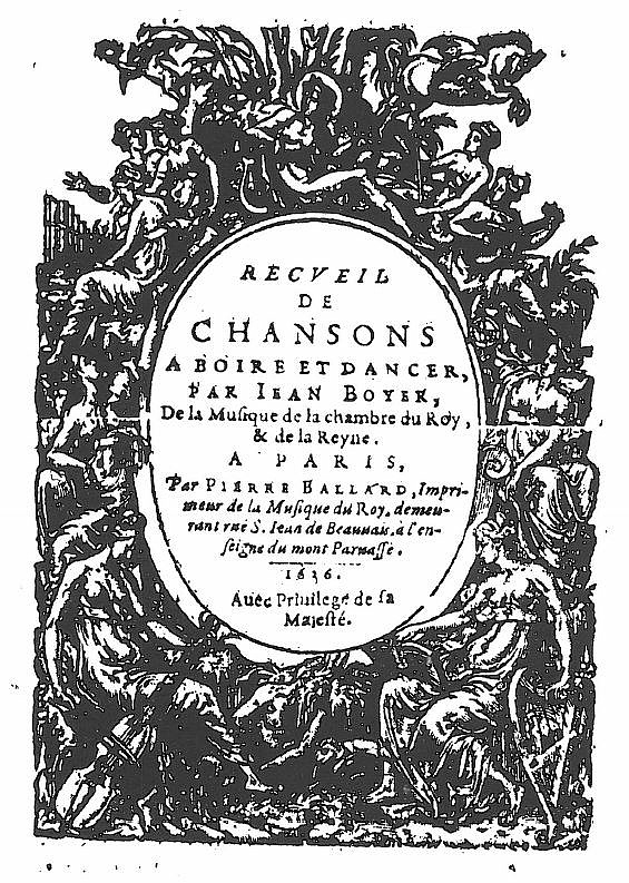 Title page of Jean Boyer's Chansons (Paris, 1636)